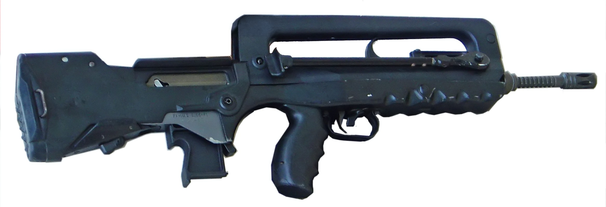 FAMAS